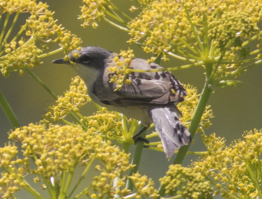 Sylvia curruca